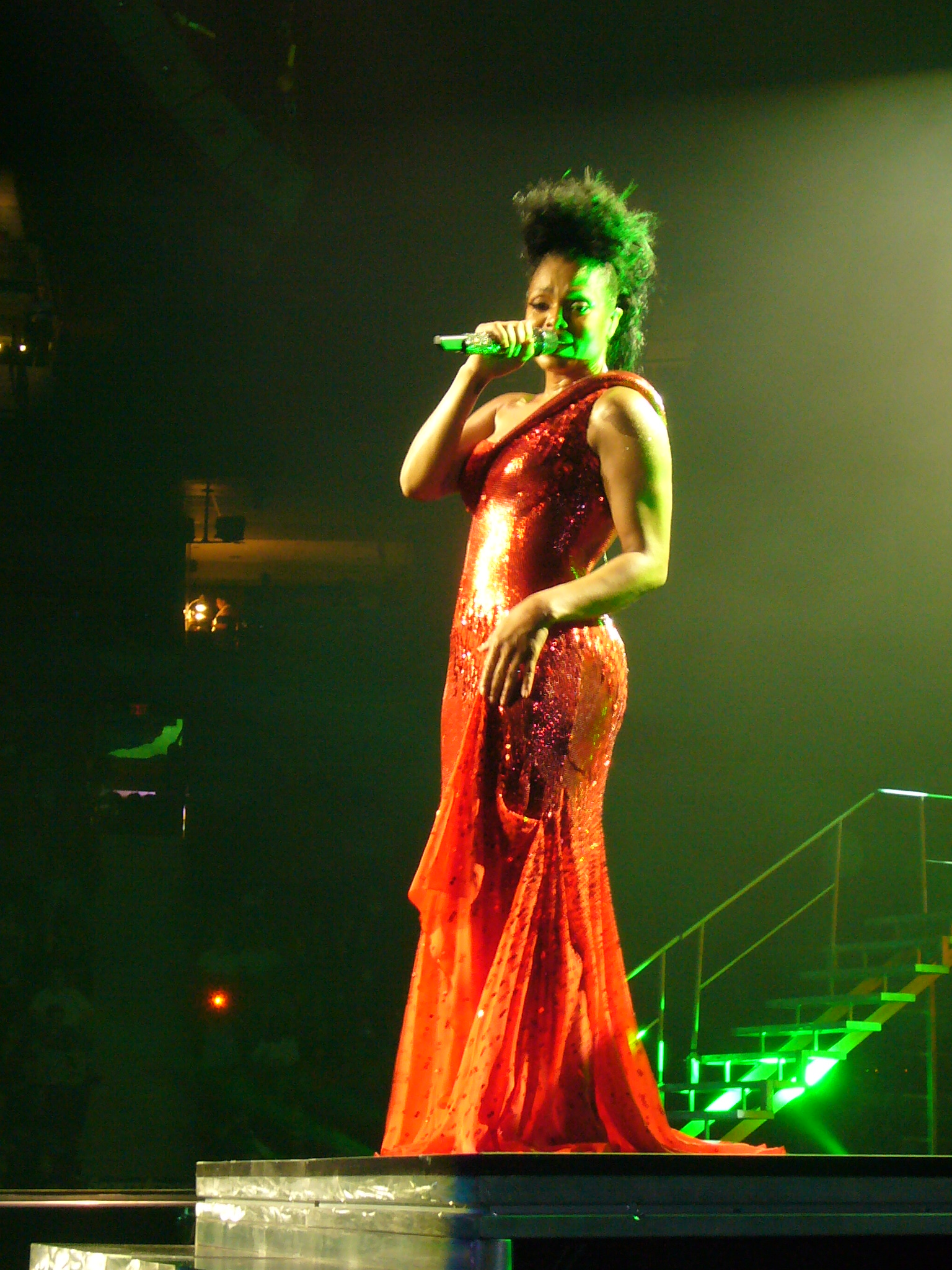 Janet Jackson, Vancouver